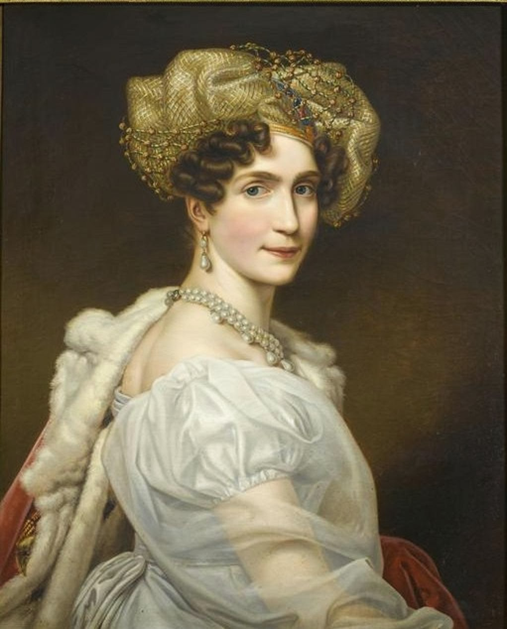 Augusta of Bavaria, Duchess of Leuchtenberg